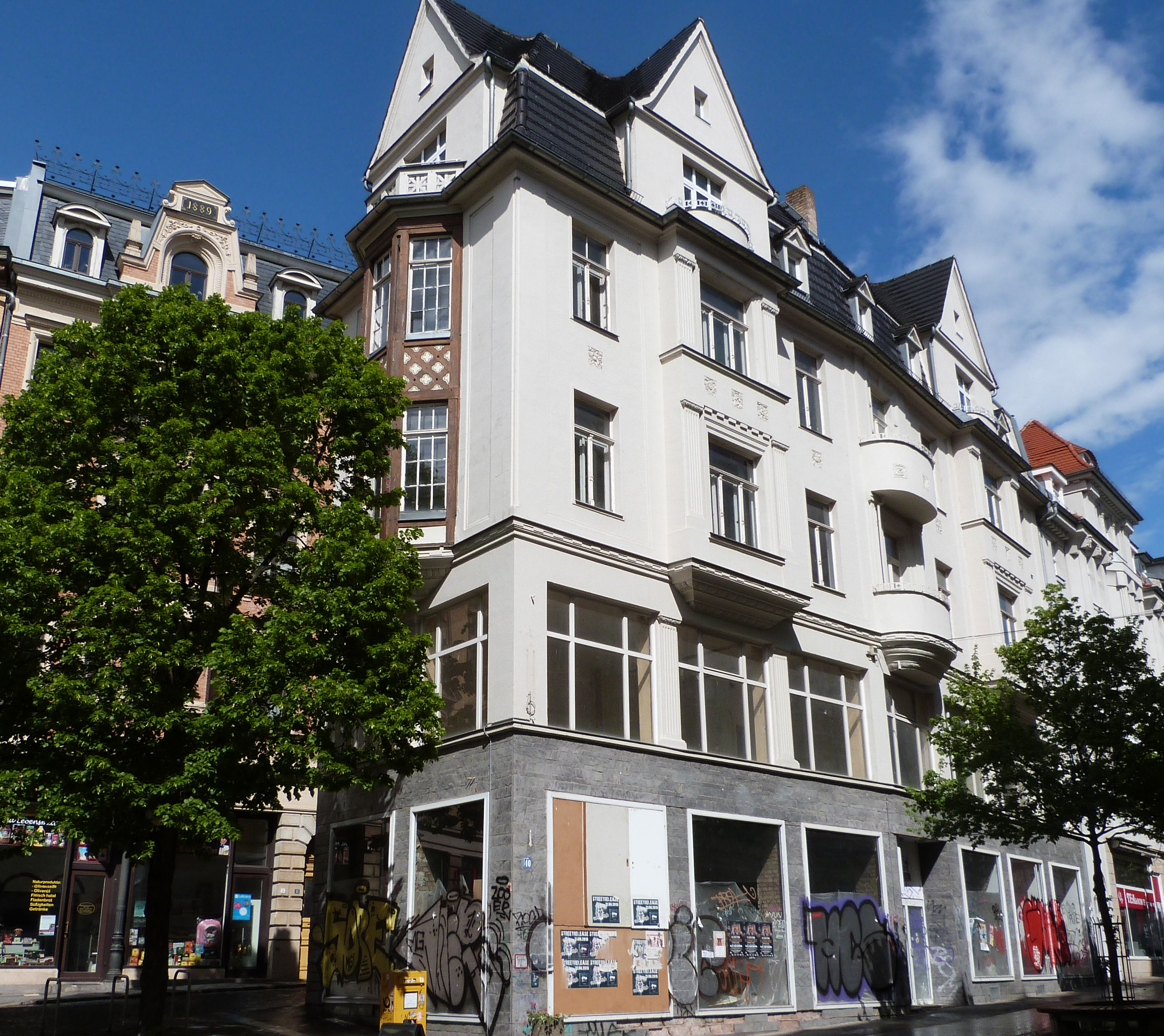 House No. 40-41, Leipziger Strasse in Halle (Saale)